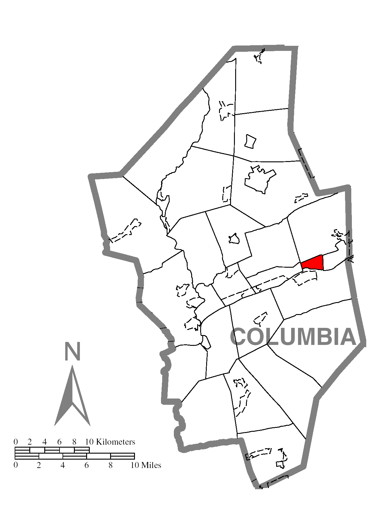 A map of Columbia County showing Briar Creek, Pennsylvania (alternate) highlighted on the map.